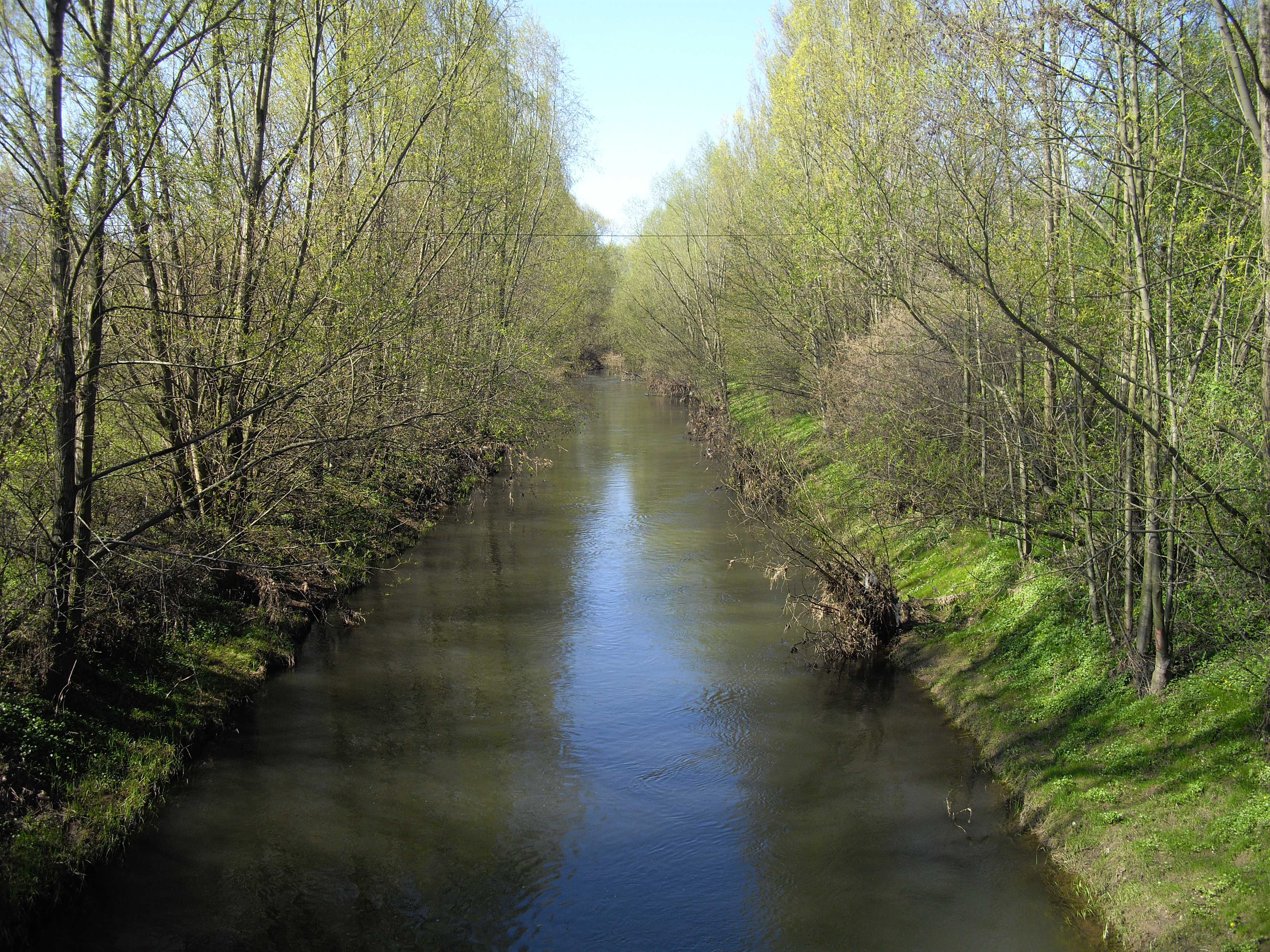 the river Helme near Katharinenrieth in the Mansfeld-Südharz rural district, Germany